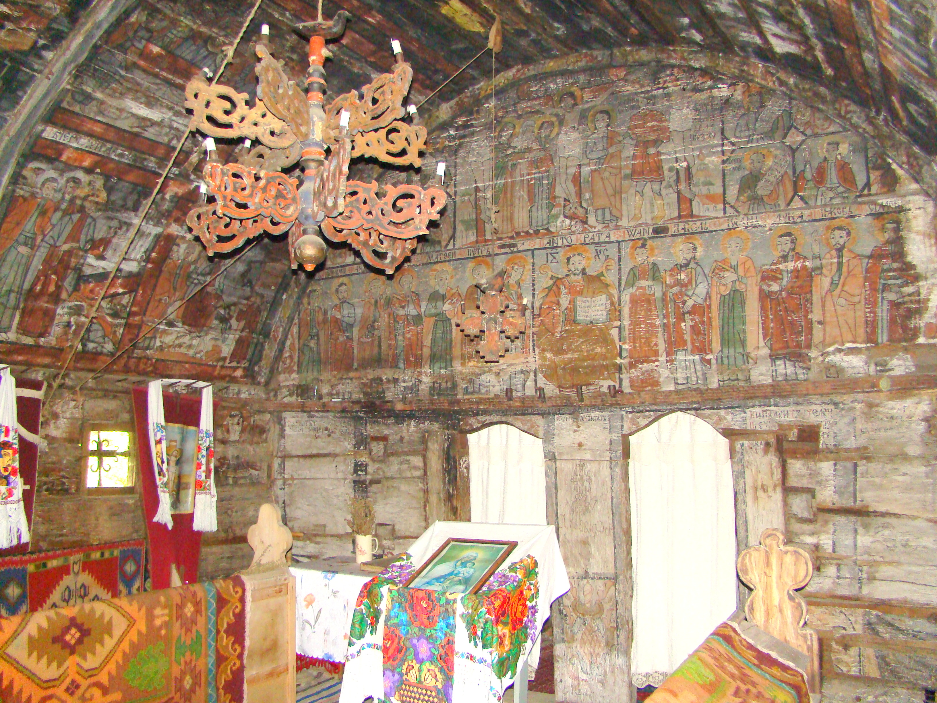 Wooden church in Sărata, Bistrița-Năsăud county